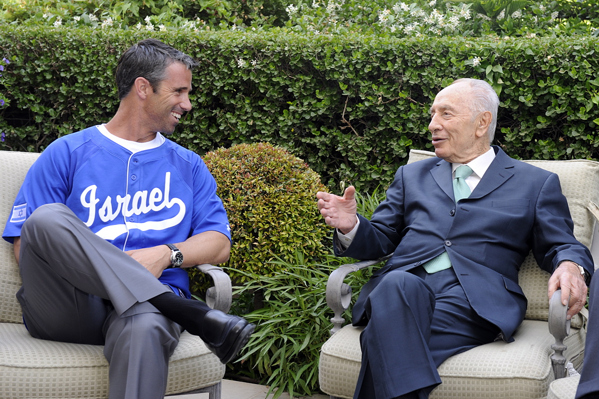 President of Israel Shimon Peres met with ex-professional Major League Baseball player Brad Ausmus.